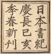 Cover of Nihonshoki edition from 1599